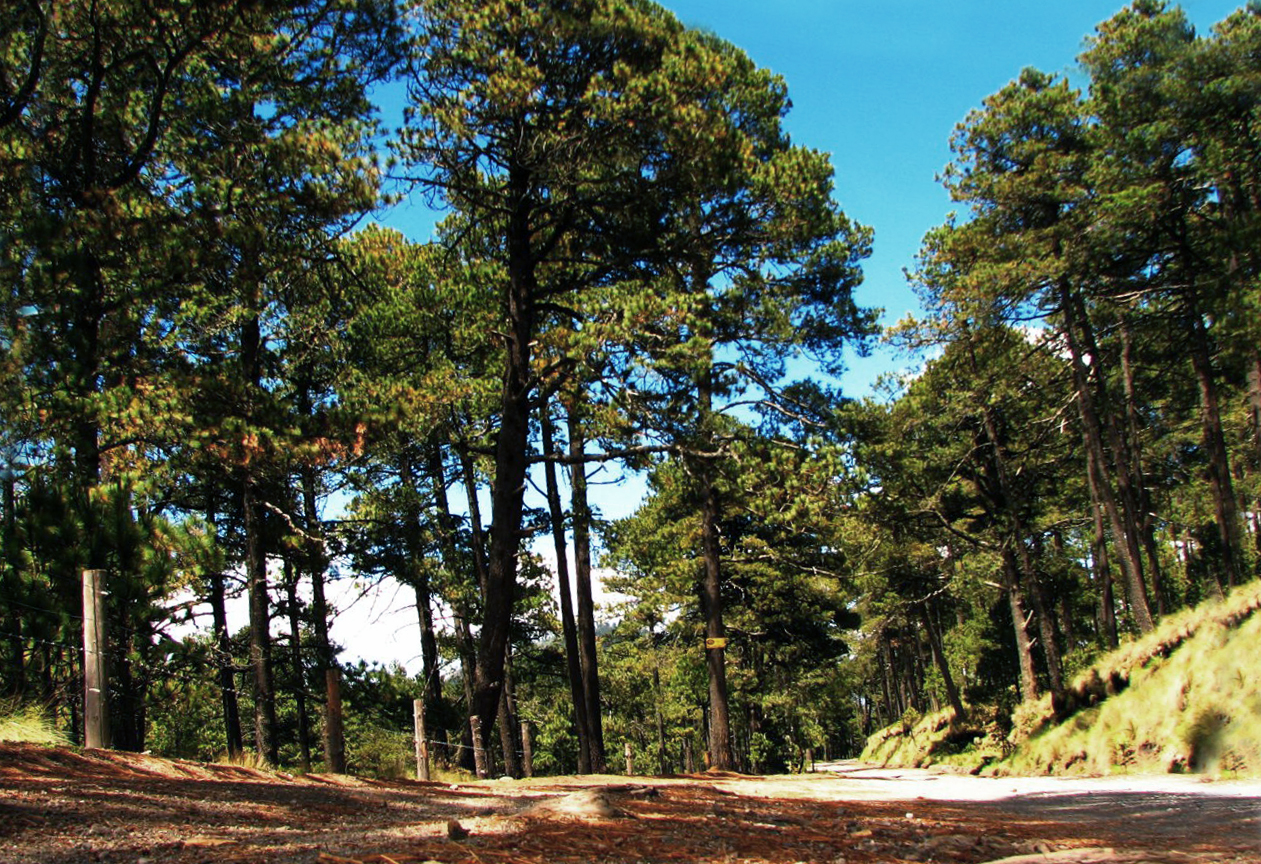 Pinus hartwegii forest in the National Park Iztazihuatl - Popocatepetl.